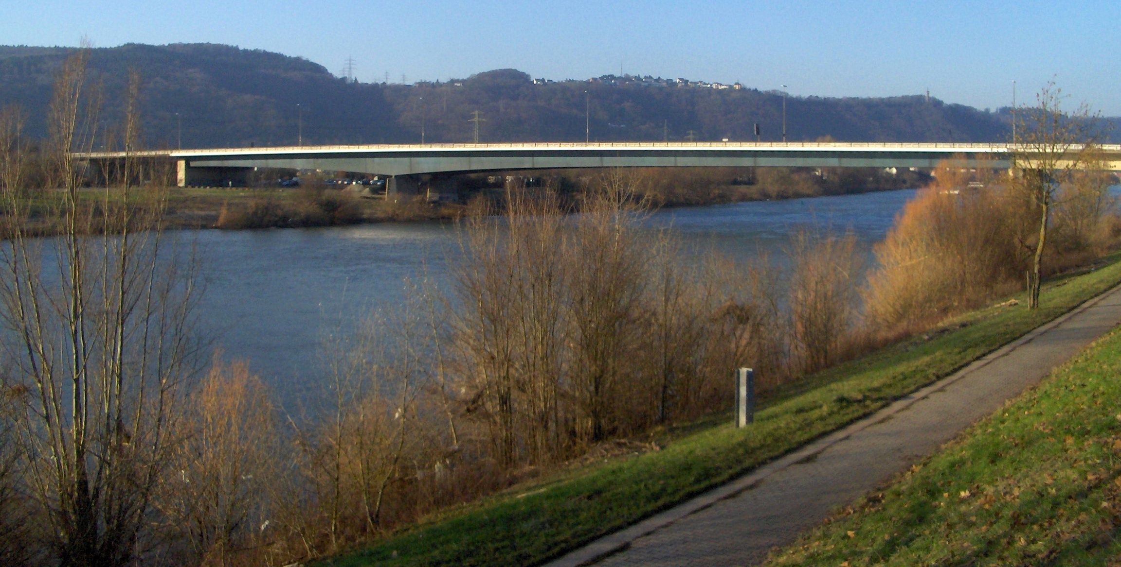 The Konrad-Adenauer bridge crossing the Moselle River in Trier. It is a six-lane road bridge opened in 1973.